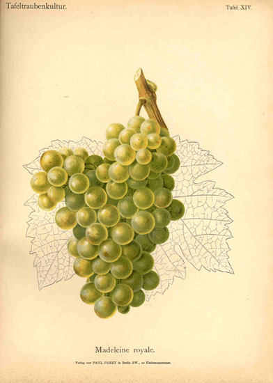 Page from Handbuch der Tafeltraubenkultur (Handbook of Table Grape Culture), by Rudolf Goethe & Wilhelm Lauche Published: Berlin, Paul Parey, 1895 Grape variety: "Madeleine royale"